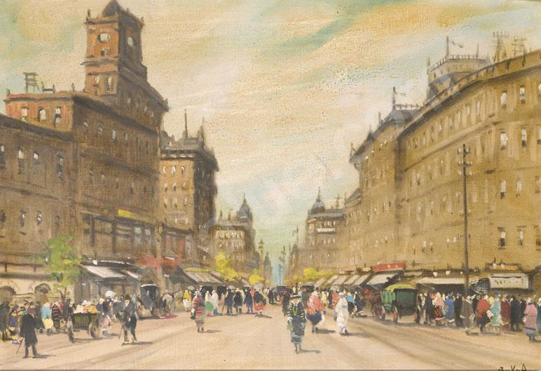 Foutca (Main Street)